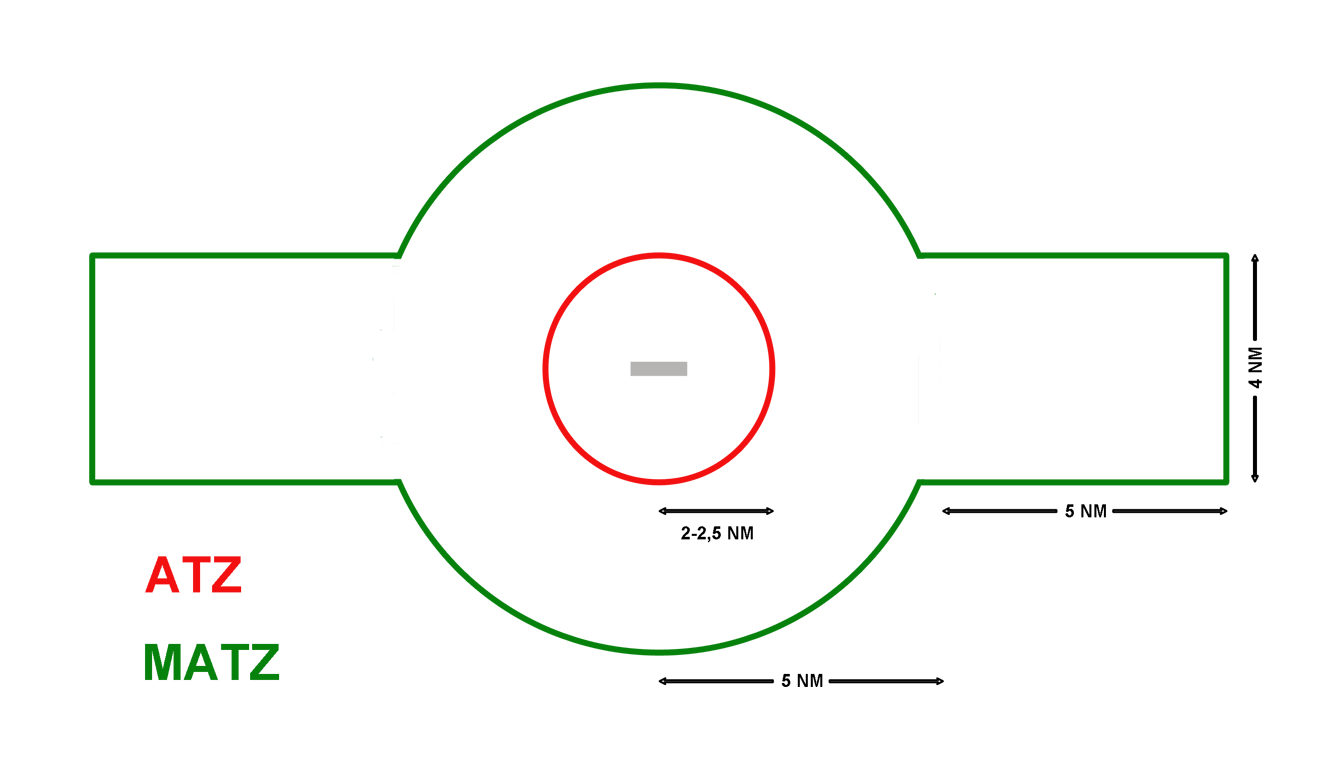 Aerodrome Traffic Zone (ATZ) and Military Aerodrome Traffic Zone (MATZ)